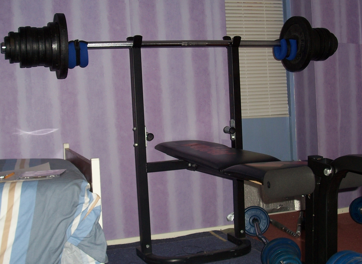 for bench press